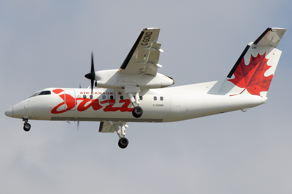 Air Canada Jazz Dash 8-100 landing in Vancouver